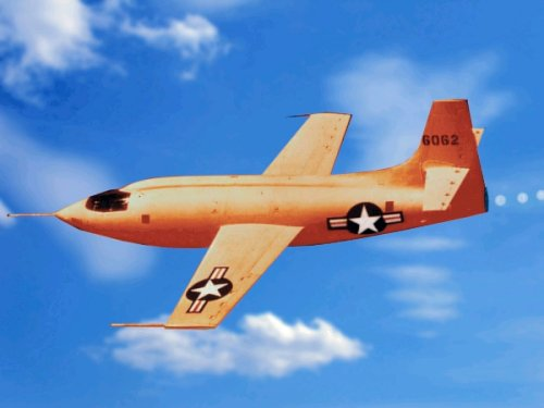 Bell X-1 rocket plane of the United States Air Force (NASA photography)